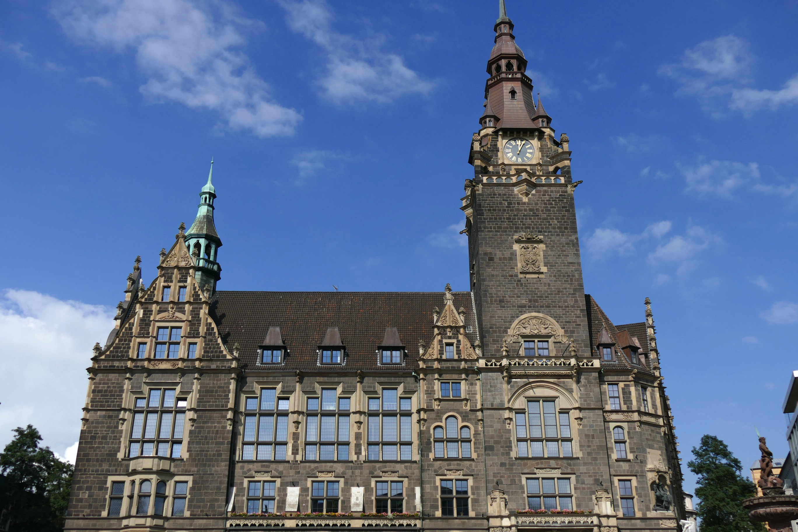 Rathaus (Town Hall) - Wuppertal, 26.9.2015